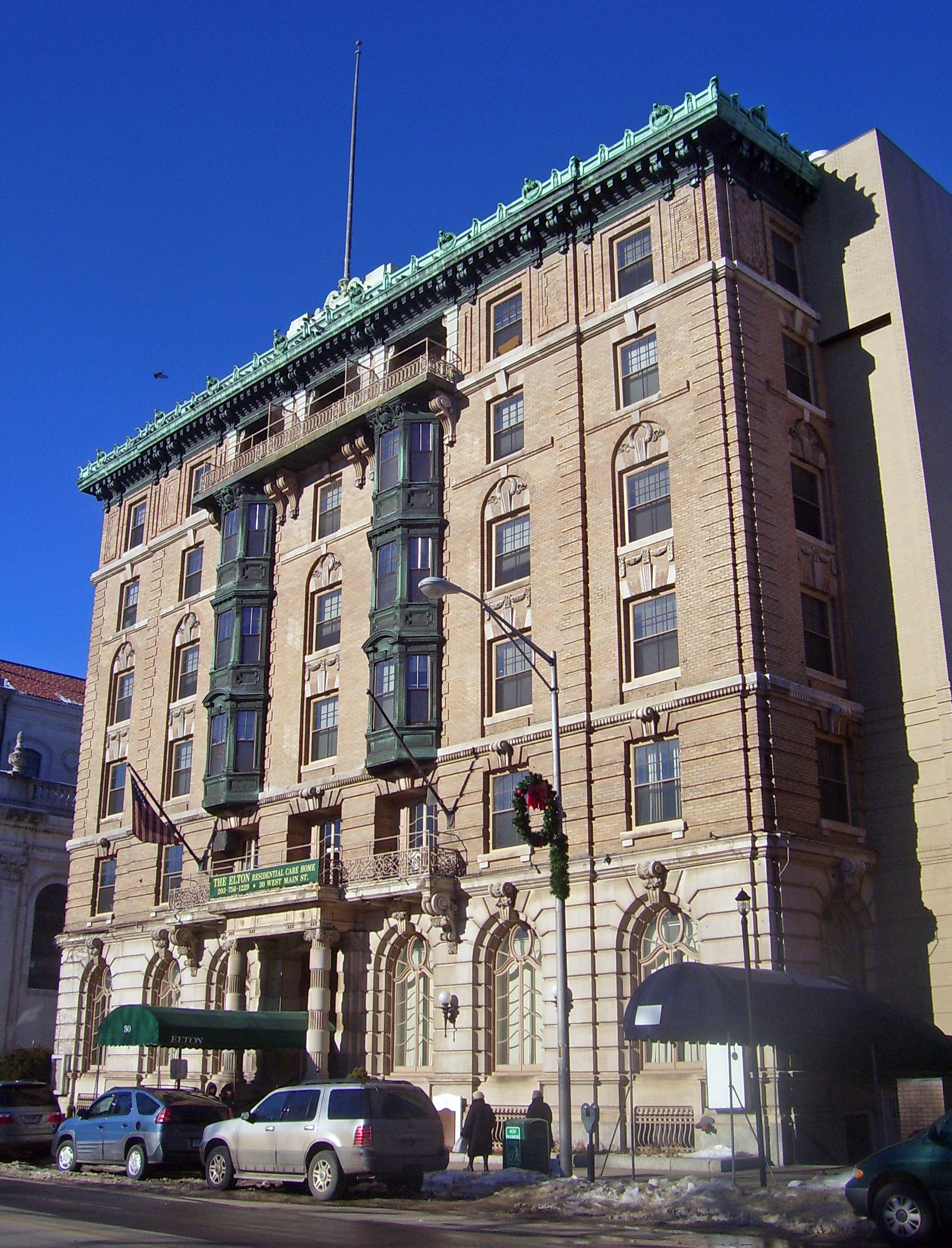 Elton Hotel, now used as senior housing, in downtown Waterbury, CT, USA